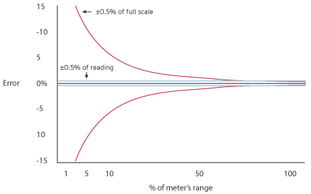 When considering flow meter error it is important to note how the accuracy is being determined